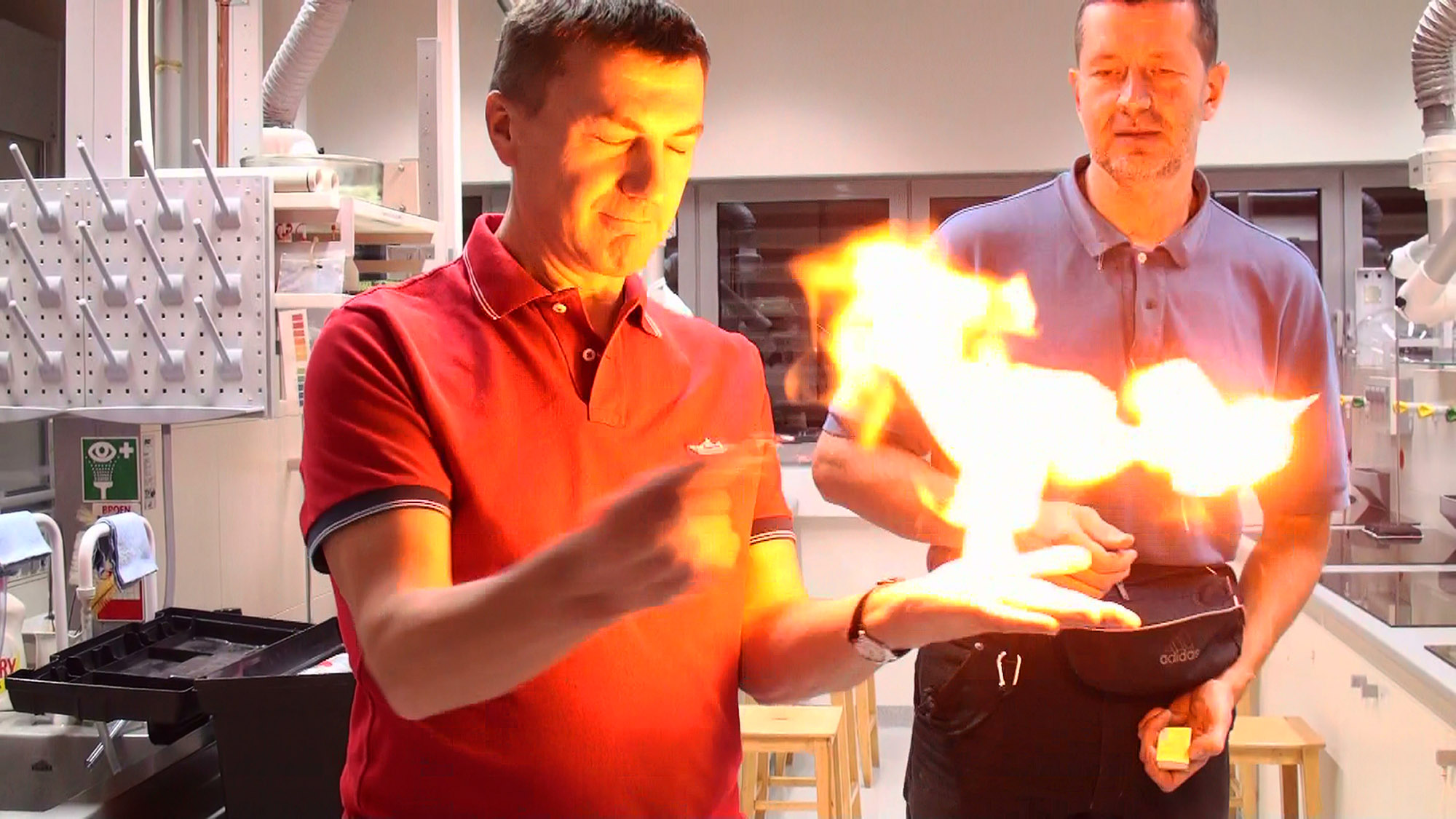 Nitrocellulose explosion by Estonian Prime Minister.